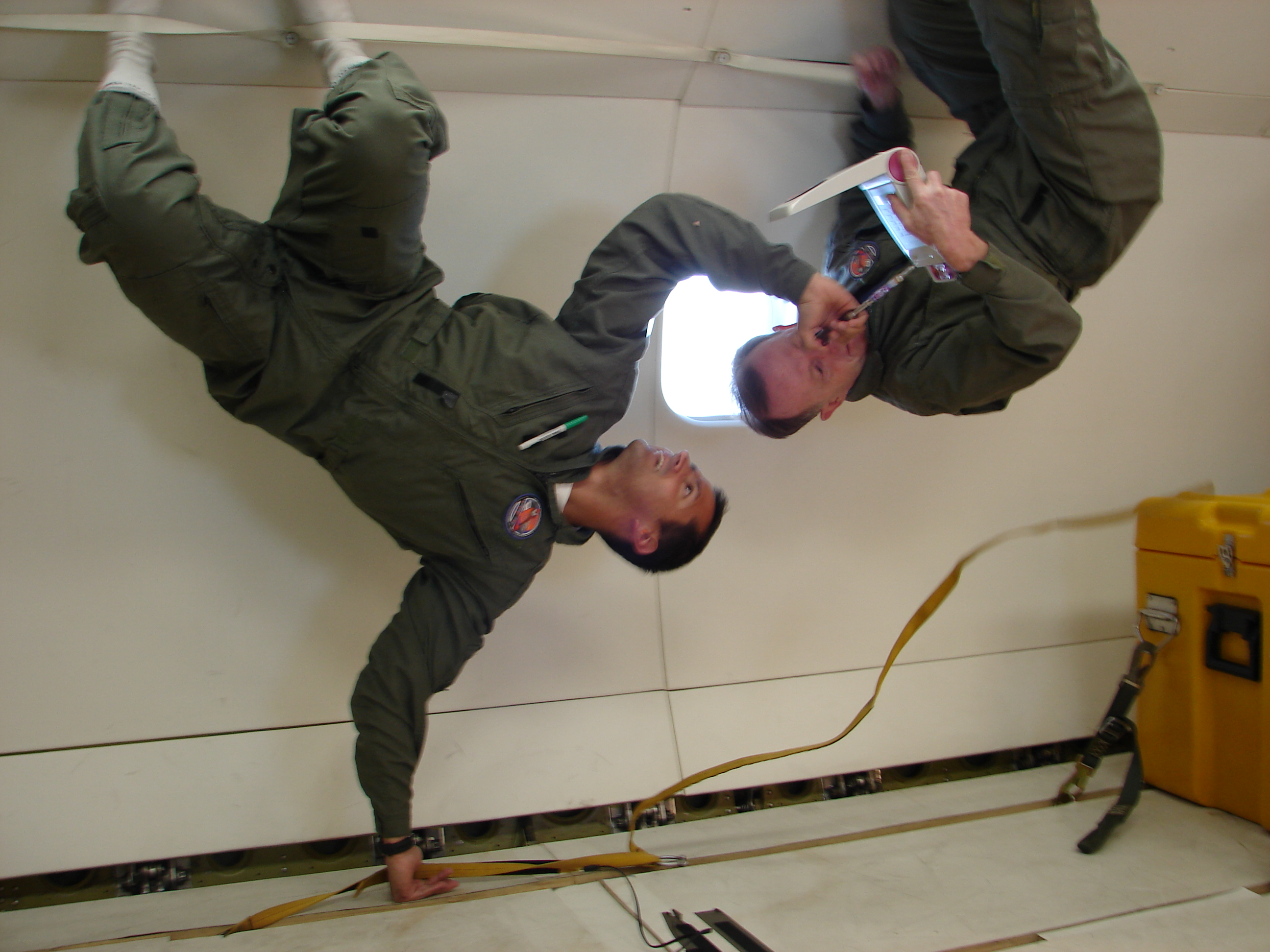 Dr Jake Maule (left) and Dr Norm Wainwright (right) test LOCAD-PTS in microgravity, during parabolic flight of NASA's C-9 aircraft (April, 2007).